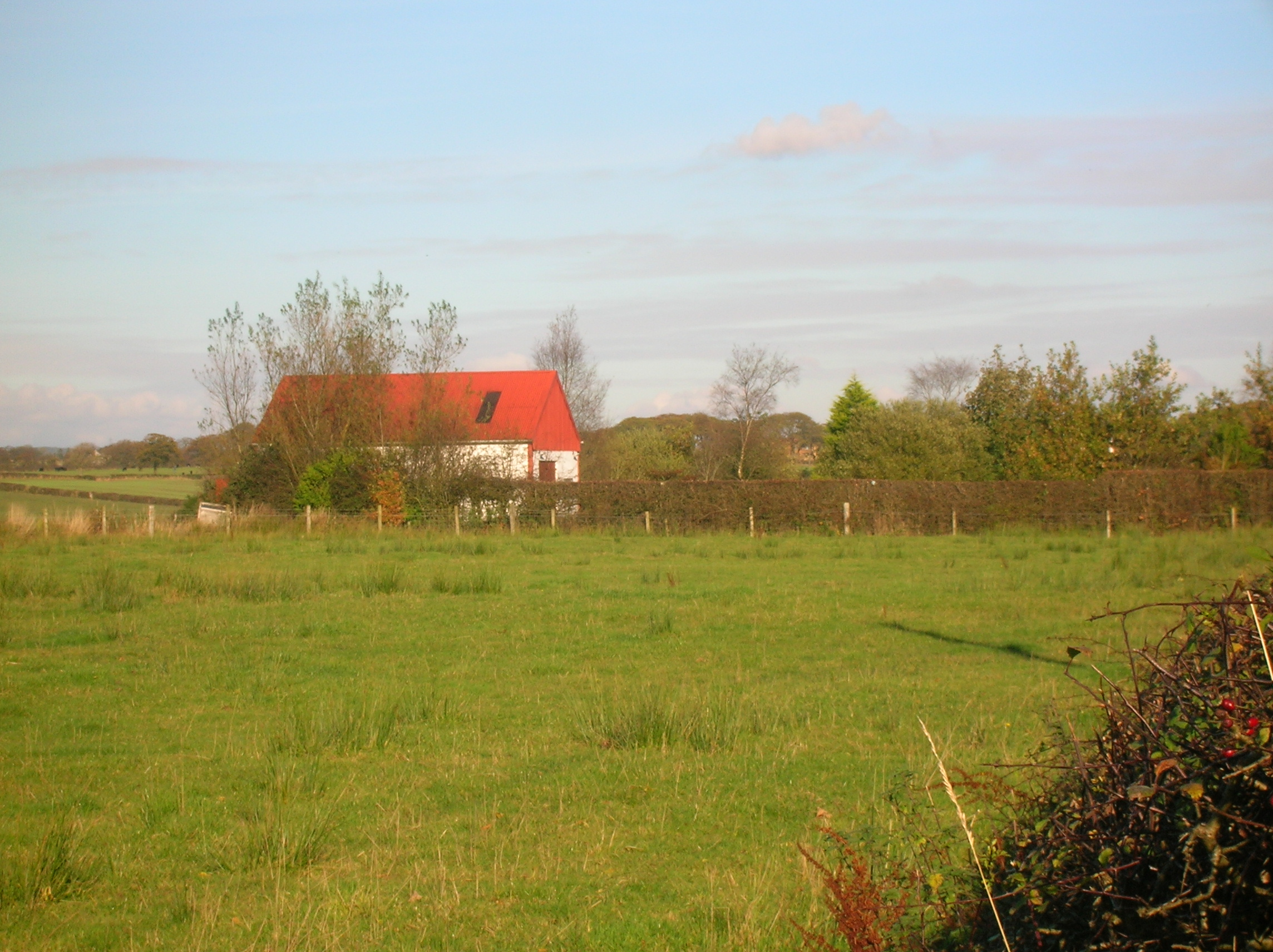 Freezeland smallholding, Stewarton, East Ayrshire, Scotland.